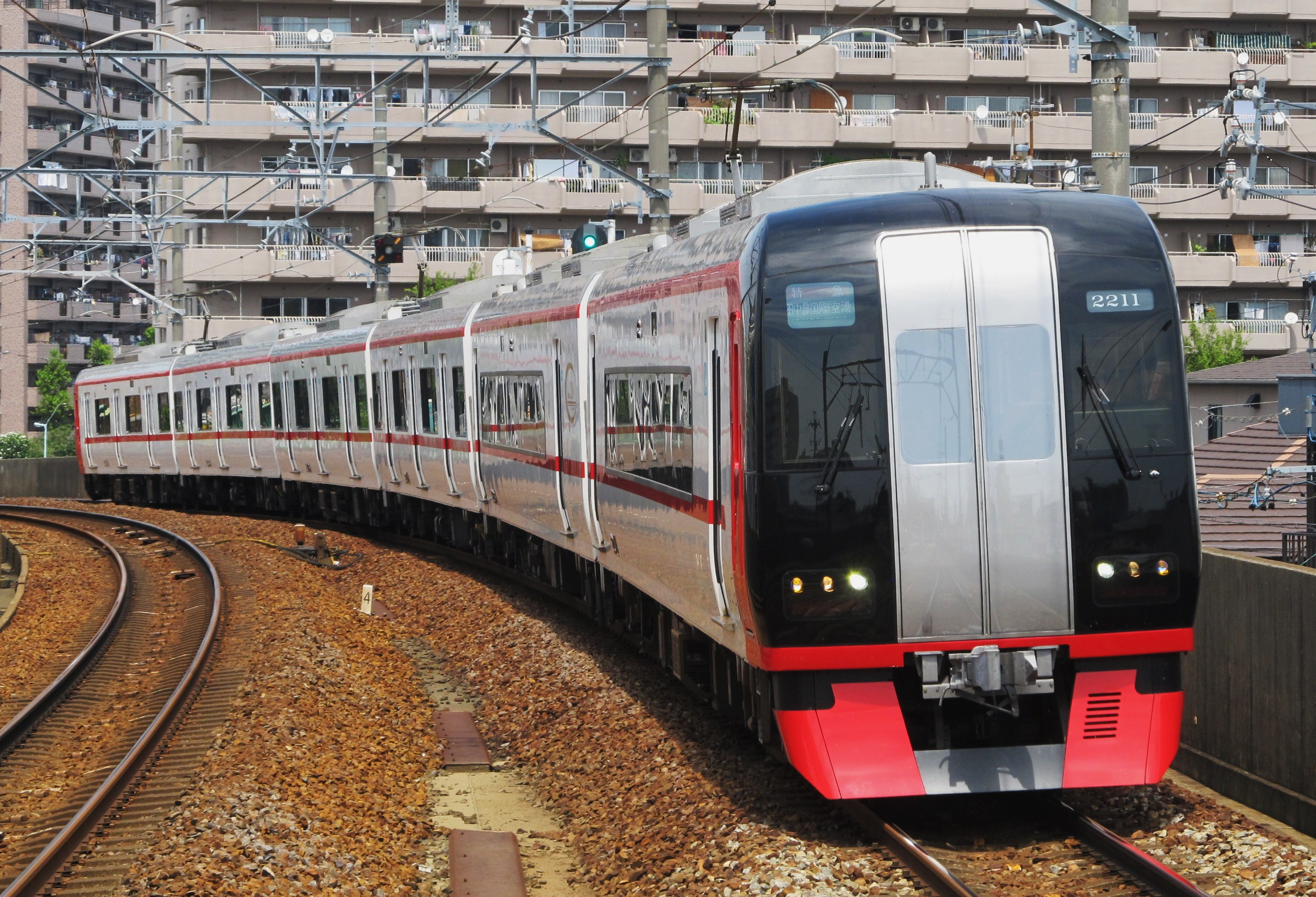 Meitetsu 2200 series. Limited Express bound for Central Japan Int'l Airpt. In Tokoname Line.